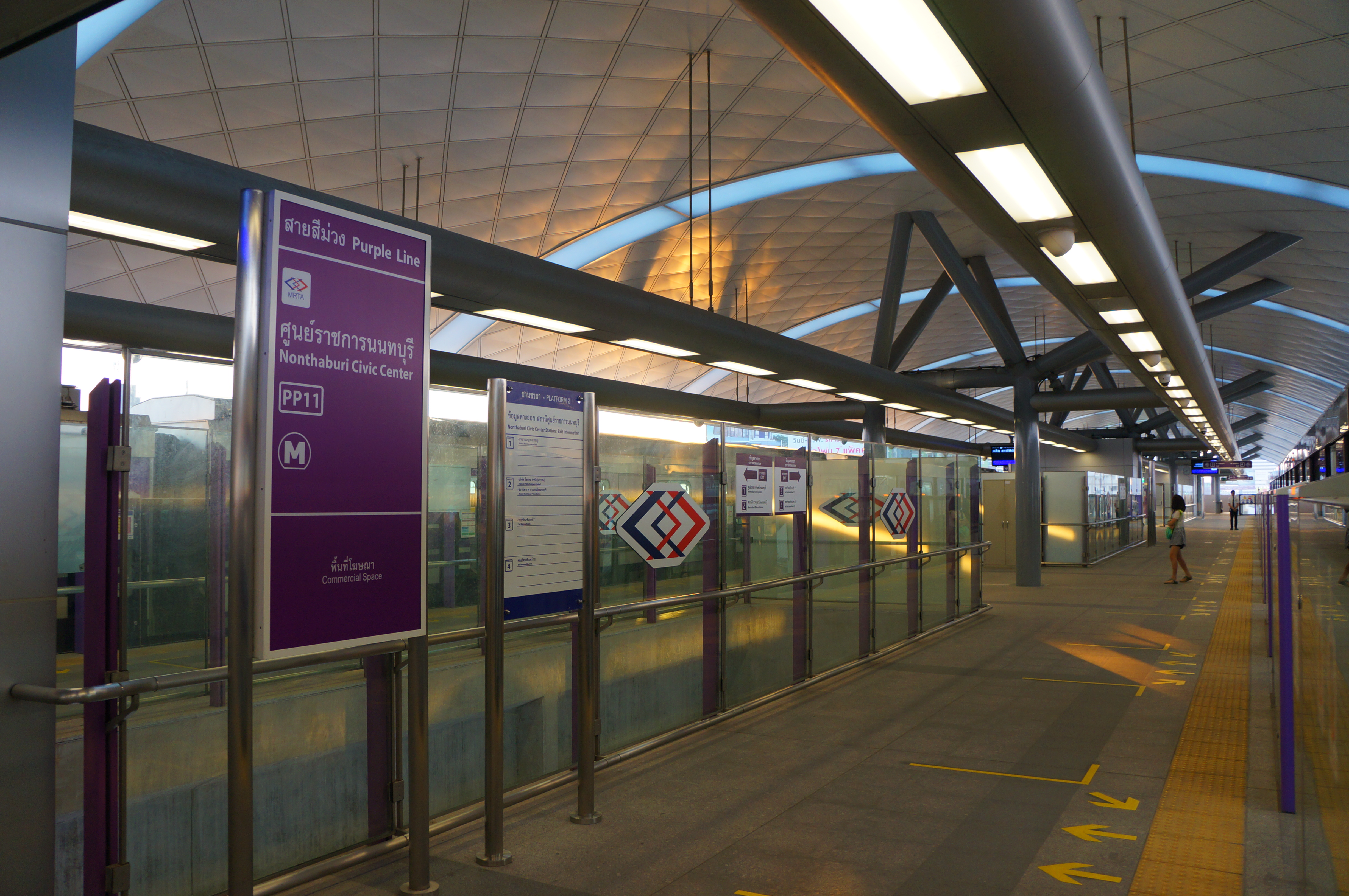 201701 Nonthaburi Civic Center Station